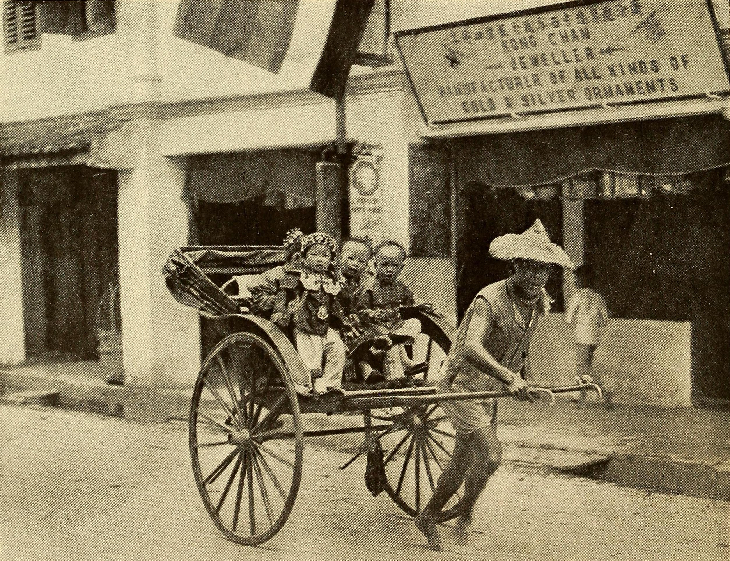 The National geographic magazine.